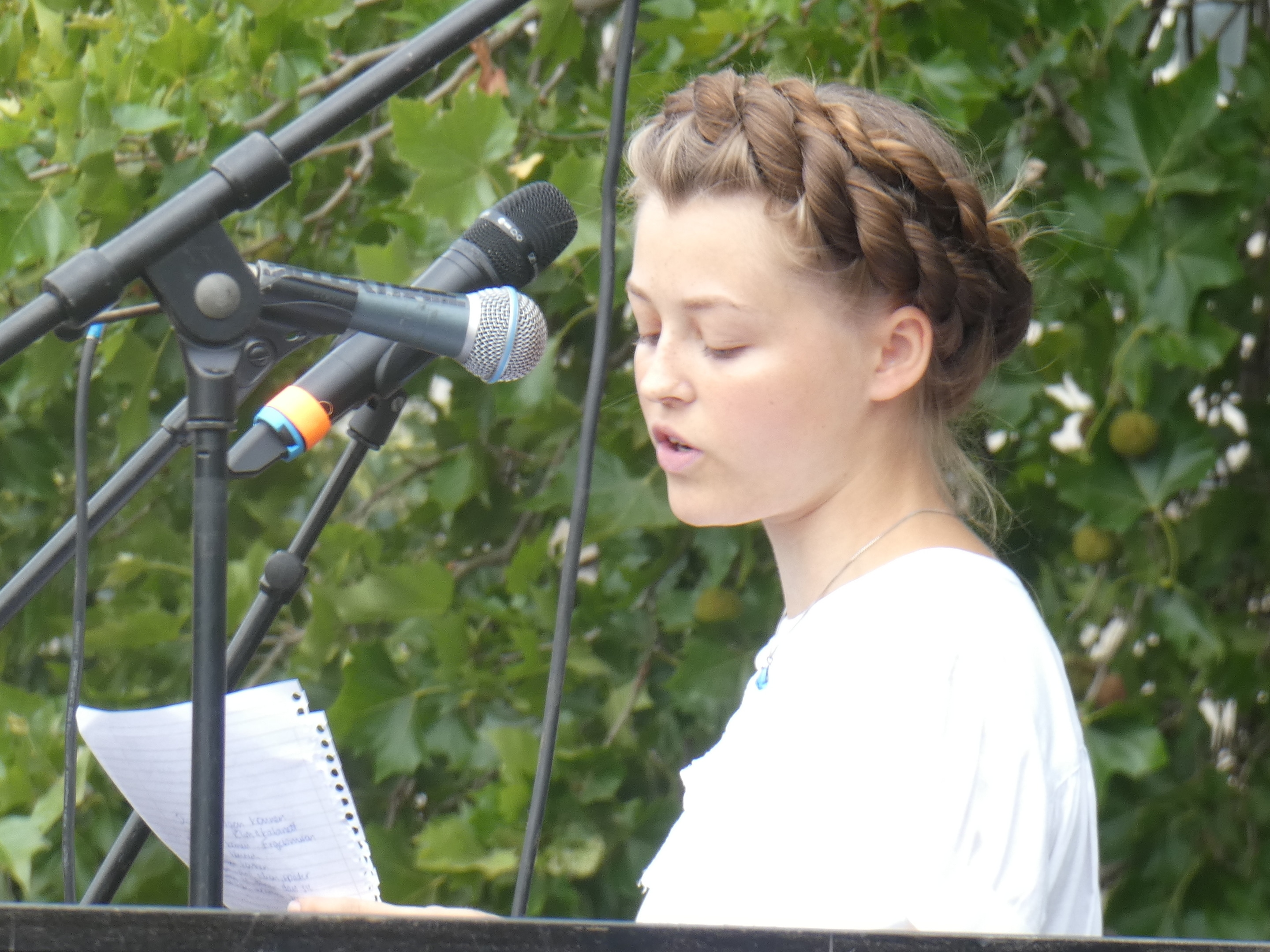 School strike for climate in Berlin 2019-07-19